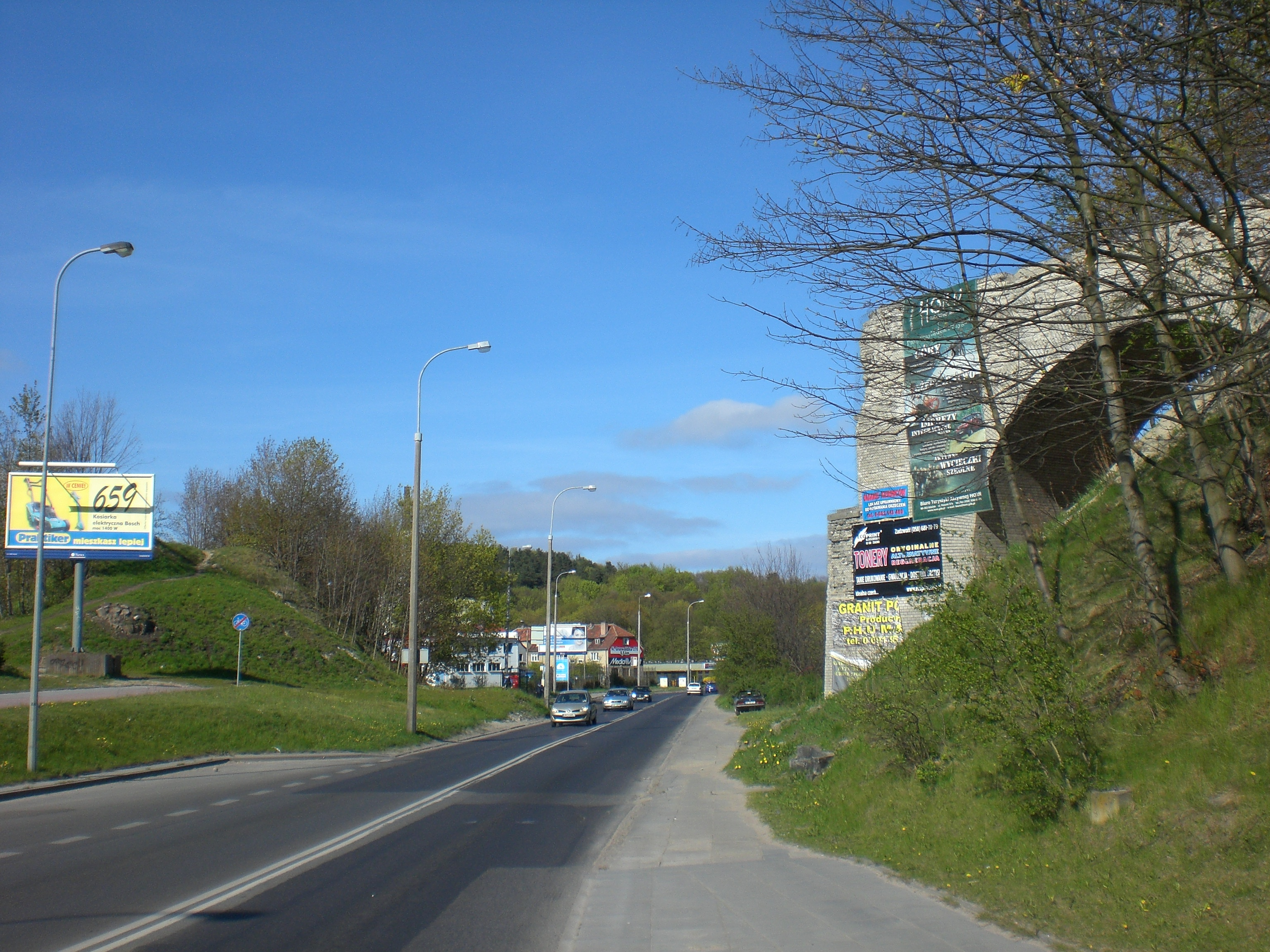 Former railway line from Gdańsk Wrzeszcz to Stara Piła.